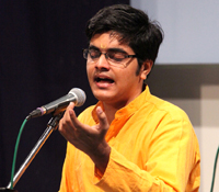 Photograph taken at the concert by vocalist V.R. Raghava Krishna